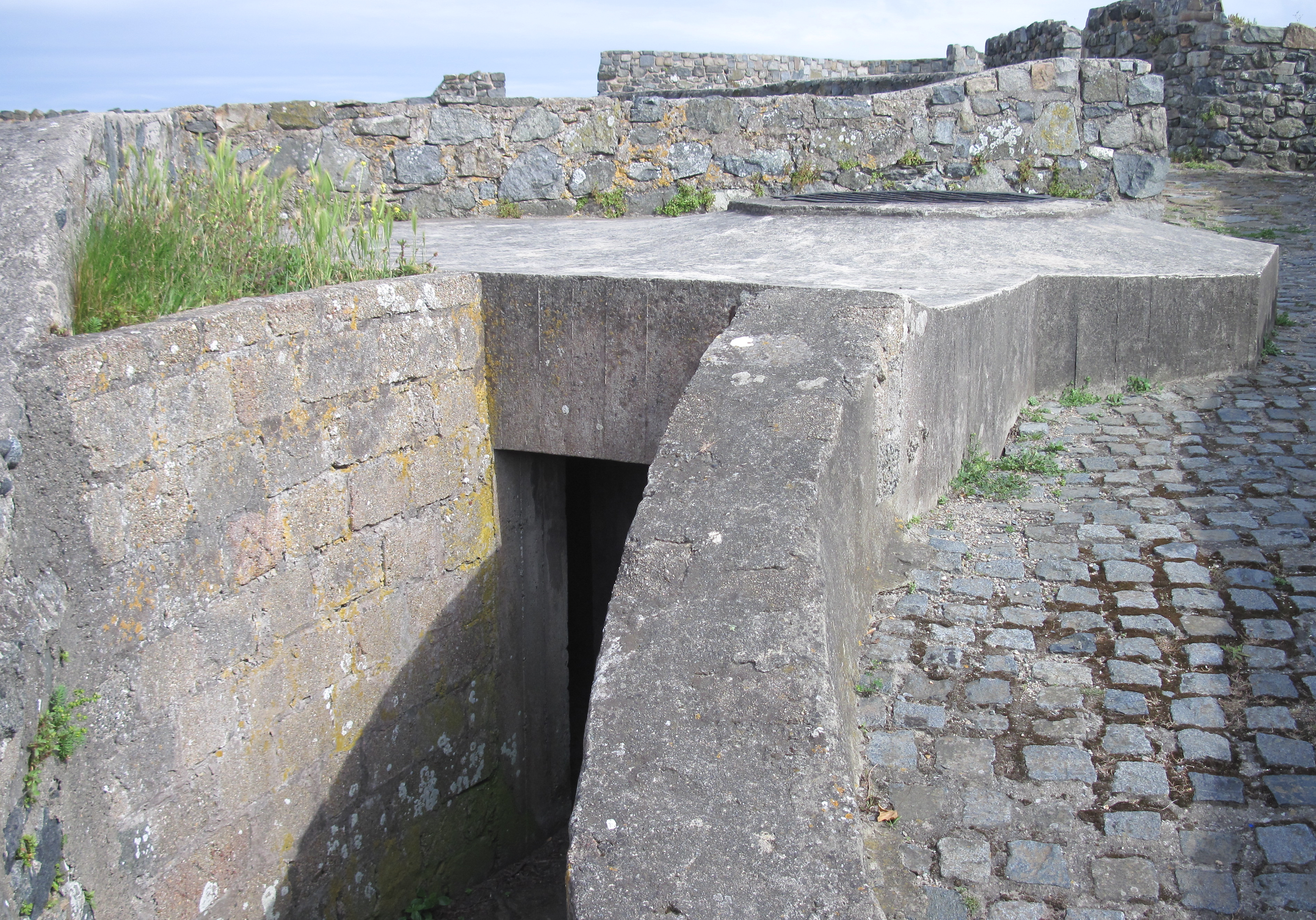 Guernsey, 2 July 2010: Vale Castle